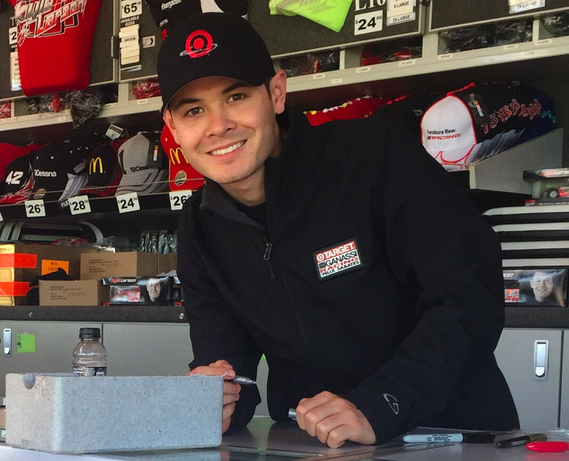 Kyle Larson at Martinsville Speedway (2015)